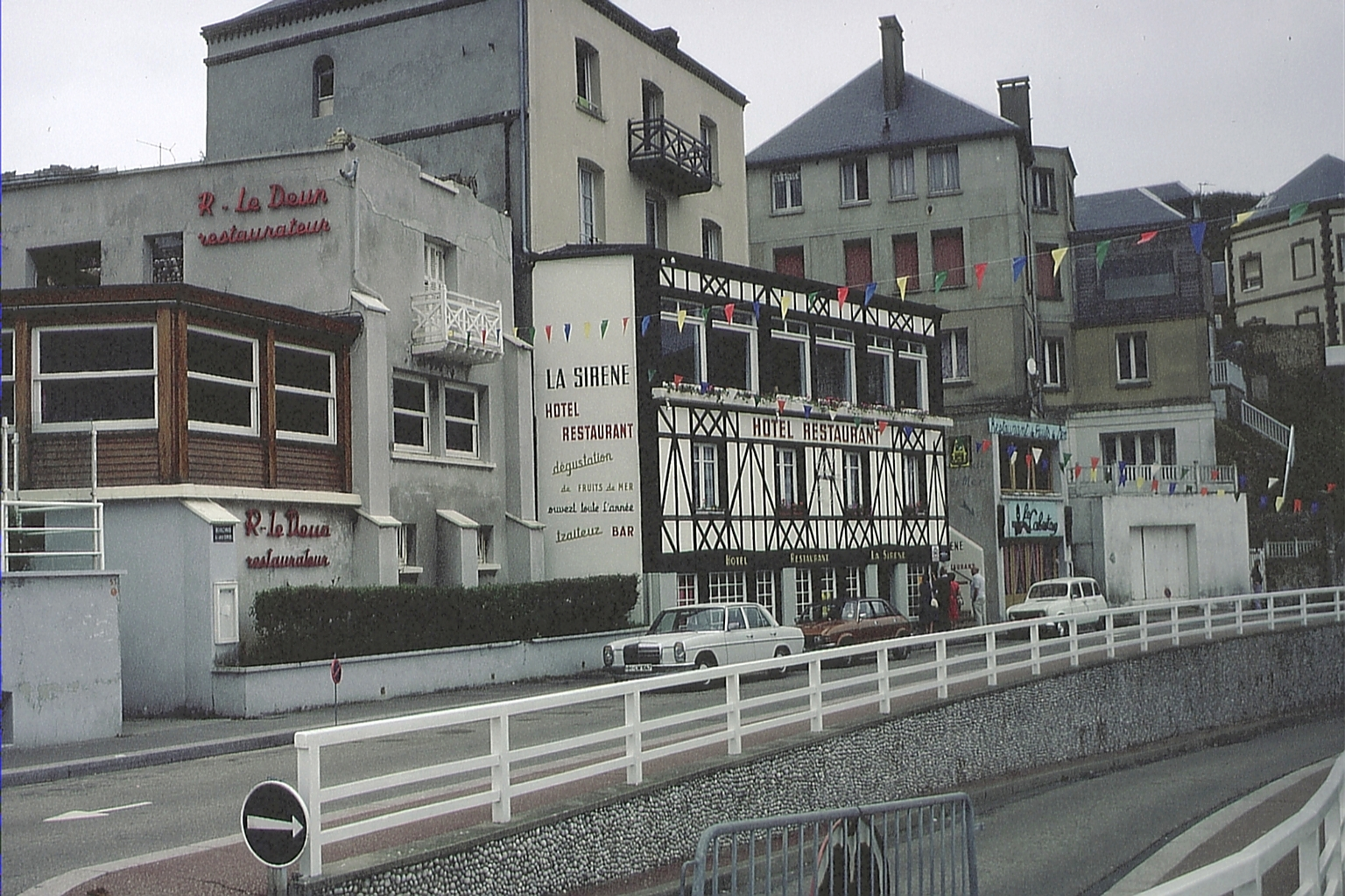 Small town Ault waterfront